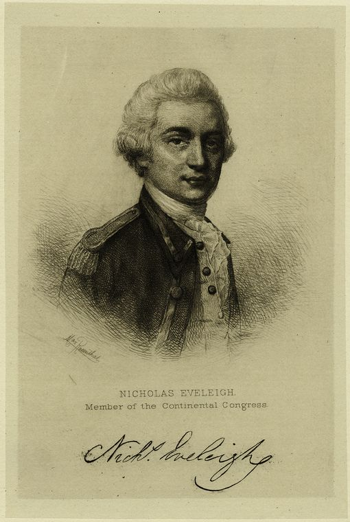 Nicholas Eveleigh, Delegate to Continental Congress